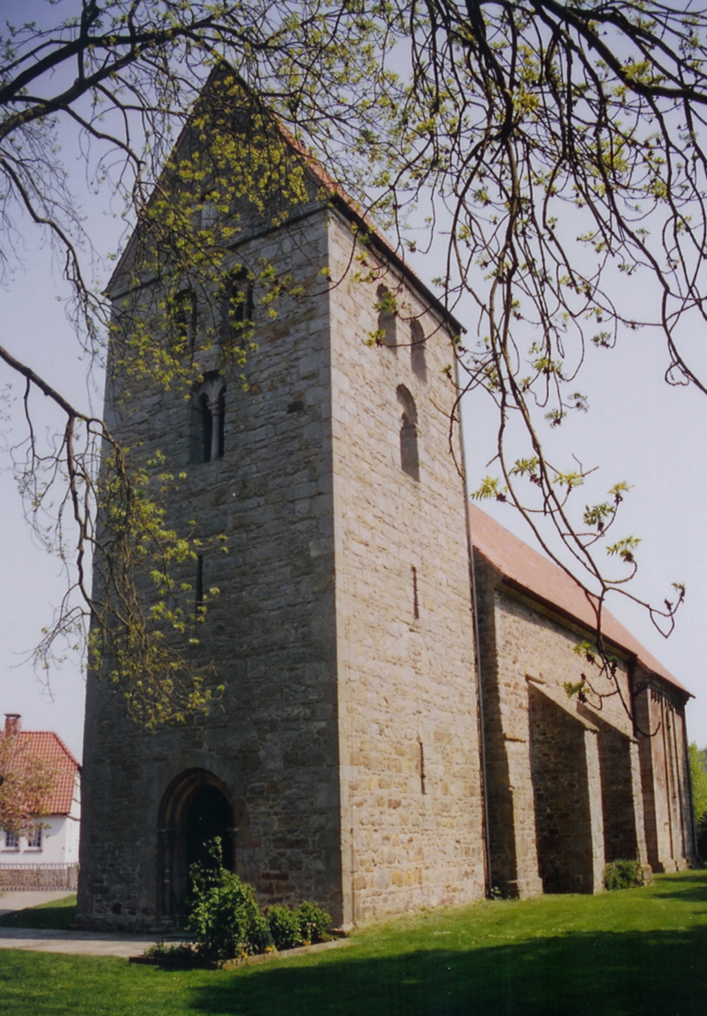 Protestant church in Recke, Kreis Steinfurt, North Rhine-Westphalia, Germany.